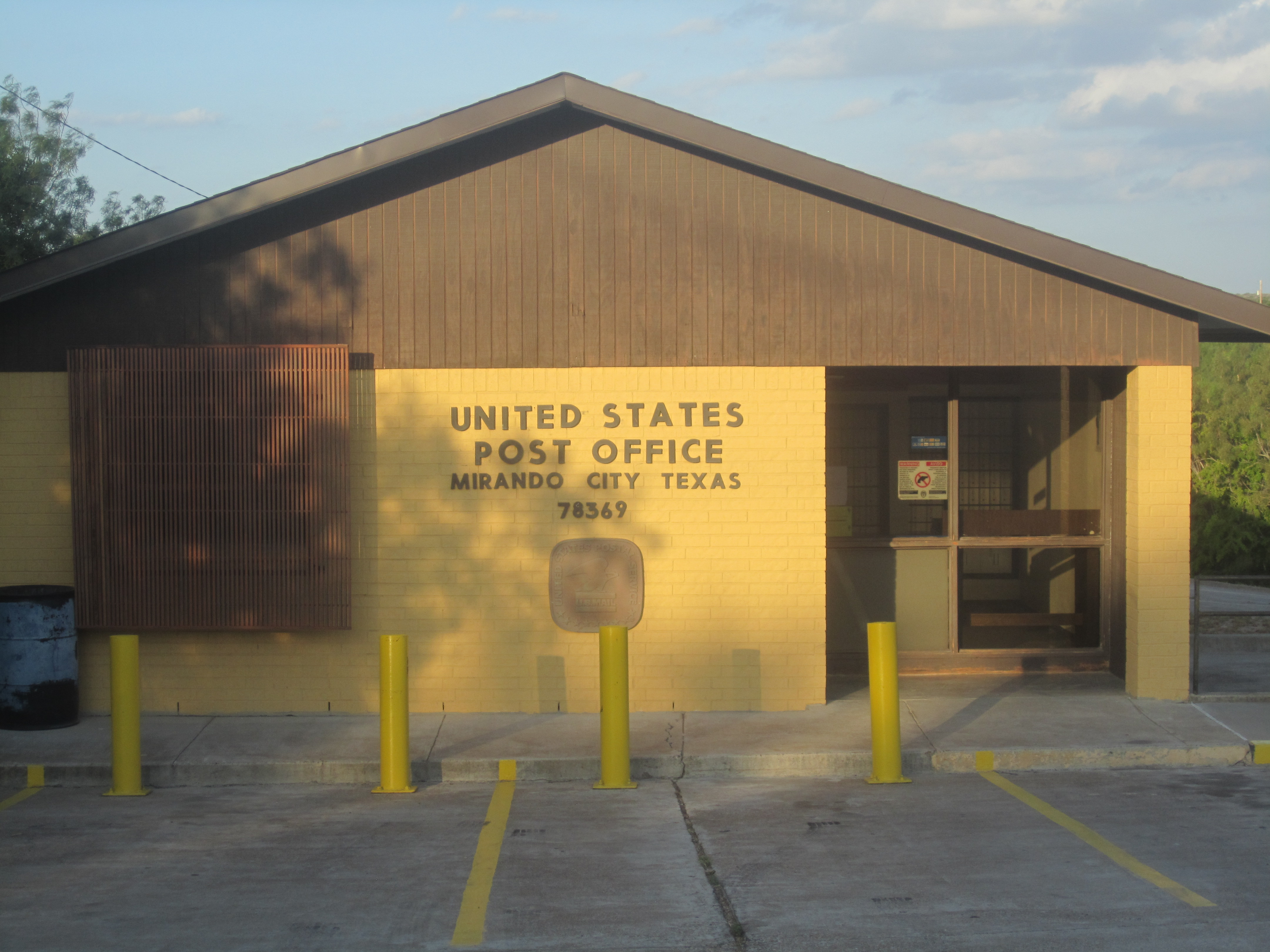 I took photo with Canon camera of post office in Mirando City, TX.